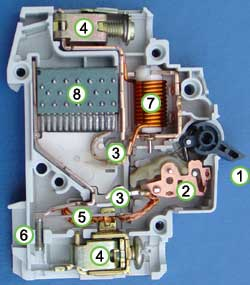 photo of inside of a Dorman Smith circuit breaker: Actuator lever - used to manually trip and reset the circuit breaker. Also indicates the status of the circuit breaker (On or Off/tripped). Most breakers are designed so they can still trip even if the lever is held or locked in the "on" position. This is sometimes referred to as "free trip" or "positive trip" operation. Actuator mechanism - forces the contacts together or apart. Contacts - Allow current when touching and break the current when moved apart. Terminals Bimetallic strip Calibration screw - allows the manufacturer to precisely adjust the trip current of the device after assembly. Solenoid Arc divider / extinguisher